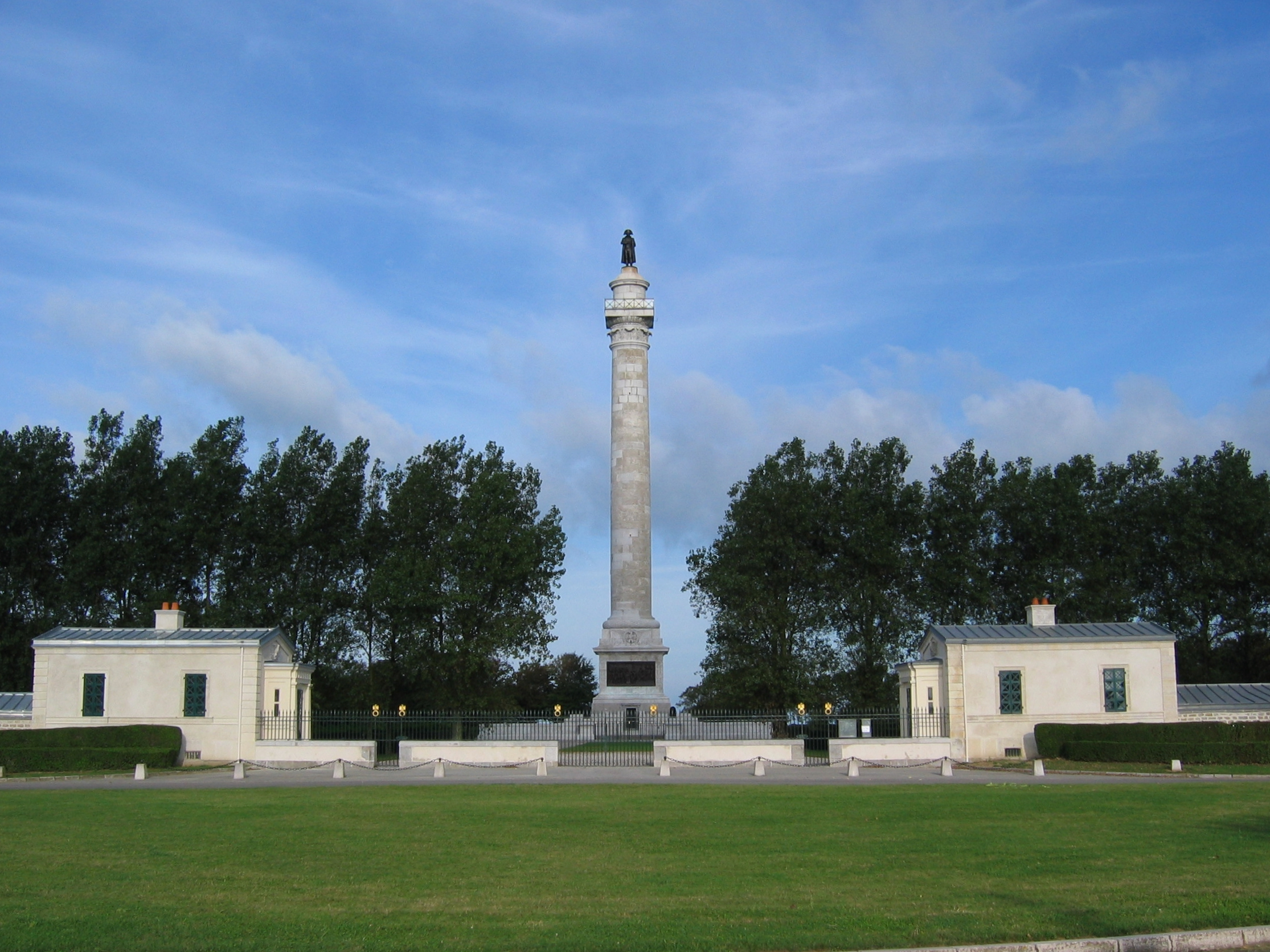 Commemorative column, memorialising Napoléon and the Grande Armée, at Wimille, near Boulogne-sur-mer, France.